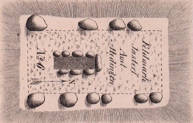 Megalithic tomb Jastorf 5, Sprockhoff-No 776